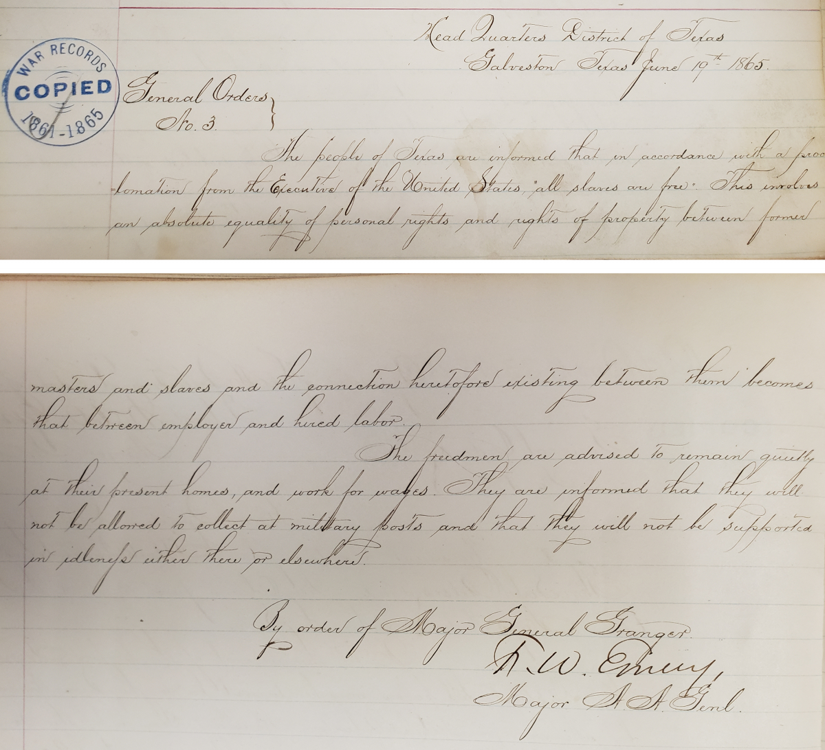 General Order No. 3, from the holdings of the US National Archives and Records Administration. Citation: RG 393, Part II, Entry 5543, District of Texas, General Orders Issued